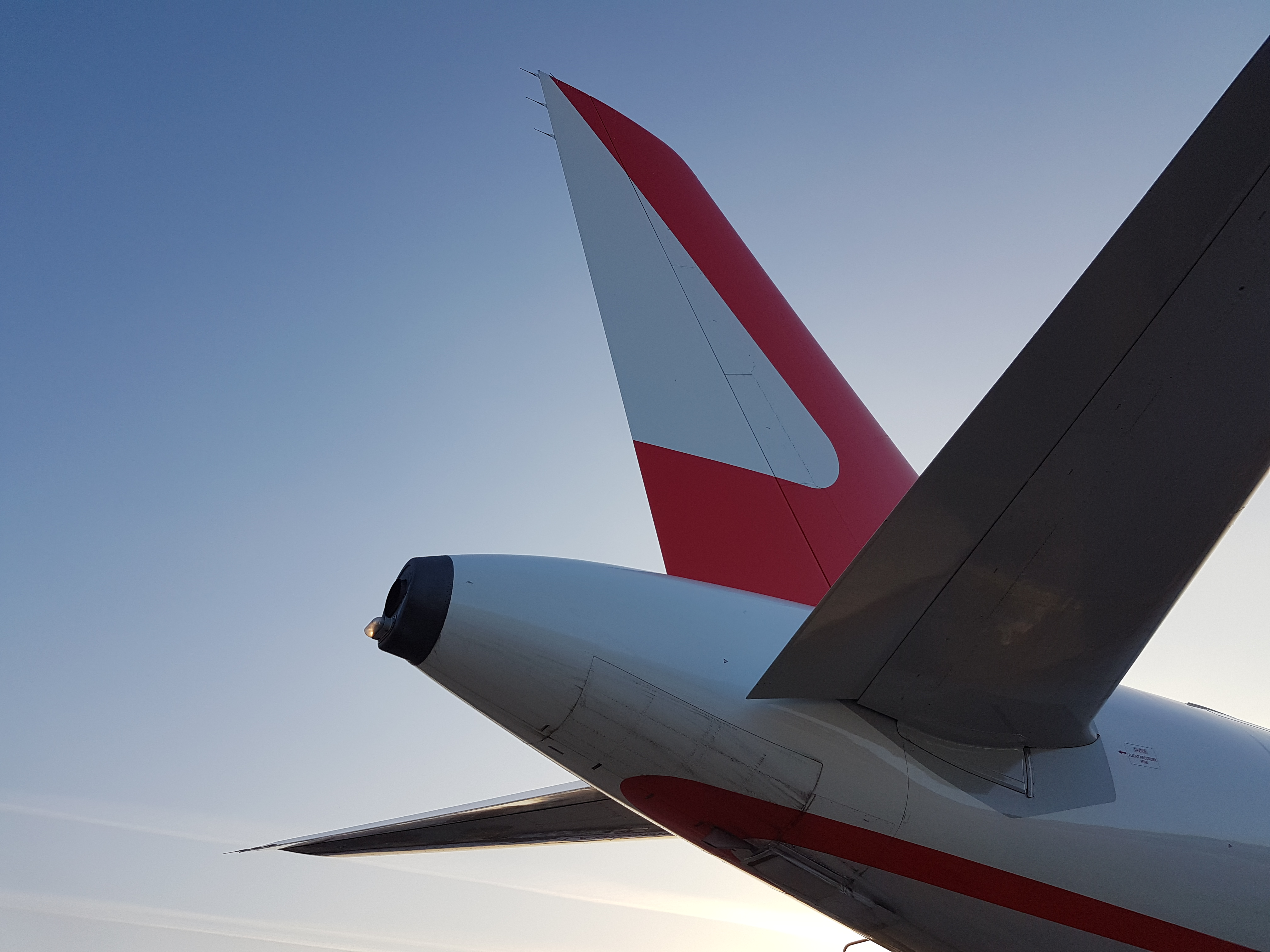 Laudamotion aircraft